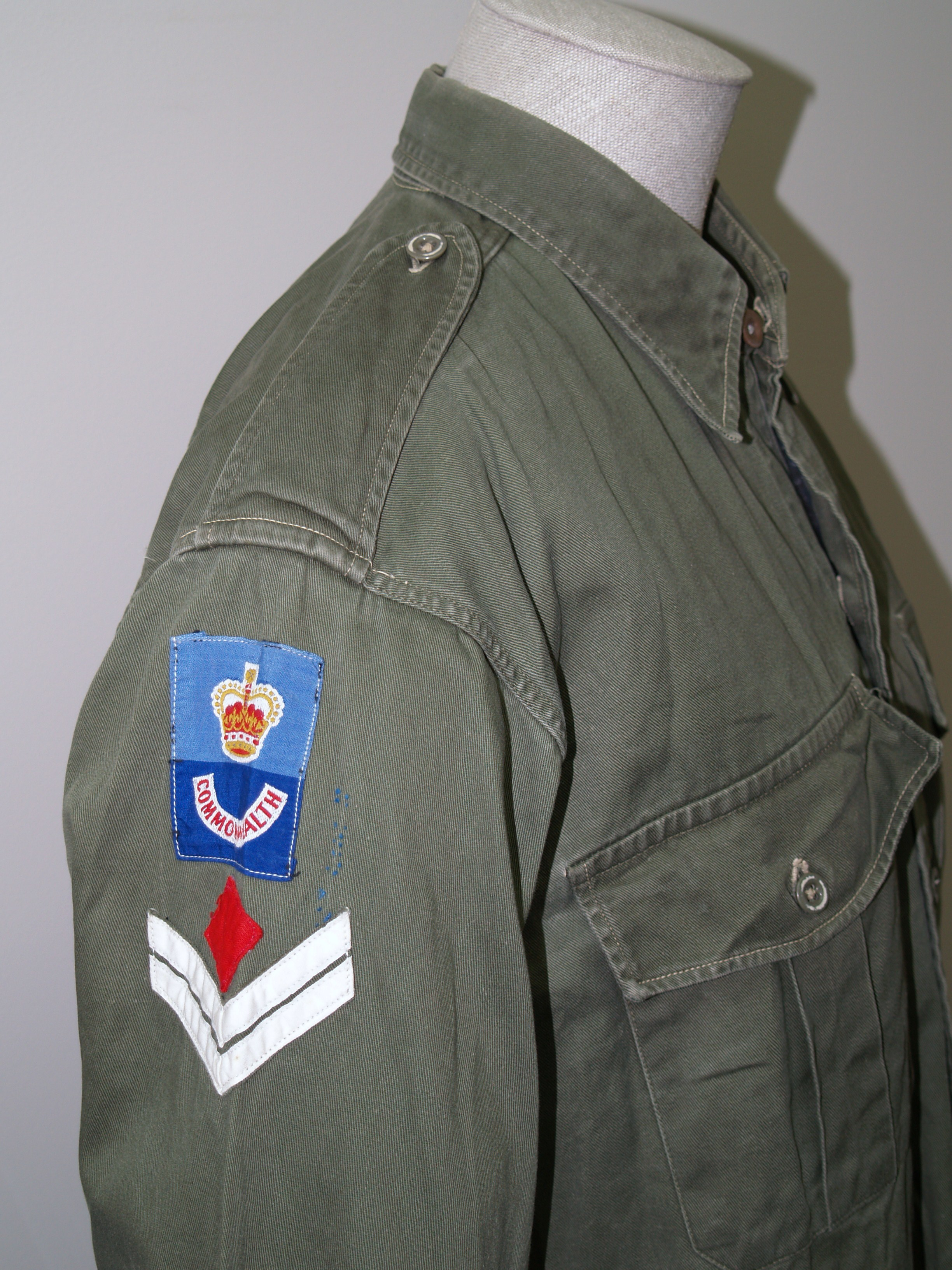 Jungle green KD shirt - Sergeant - RNZAMC - Vietnam - 1968 Belonged to Sgt Colin Whyte, RNZAMC, Vietnam, 1968 These shirts bear Australian rank insignia. The Sergt. shirt being Vietnam issue.